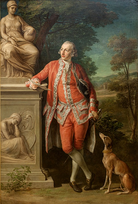 Sir Peter Beckford, (1740-1811), was one of 18th-century English peerage; he is a huntsman, a writer and the patron of the well-known Classical composer, pianist Muzio Clementi. Sir Peter Beckford was a nephew of the Lord Mayor of the City of London William Beckford and the cousin of the English novelist William Thomas Beckford (1760-1844) who is the author of the famous Gothic novel Vathek and builder of the remarkable folly Fonthill Abbey. He was also the British diplomat and politician George Pitt (1721 –1803)'s son-in-law for his marriage to Hon. Louisa Pitt (1754–1791) in 1773.